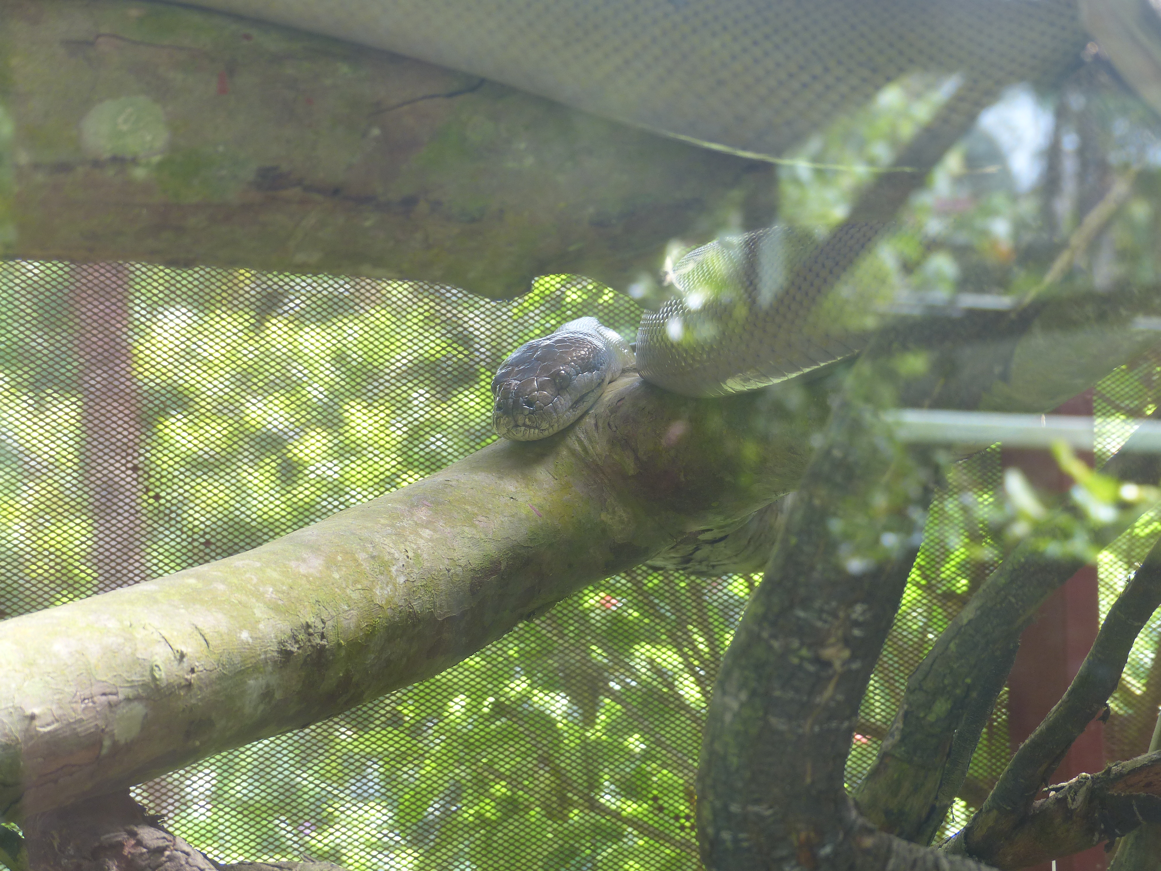 Apodora papuana in captivity